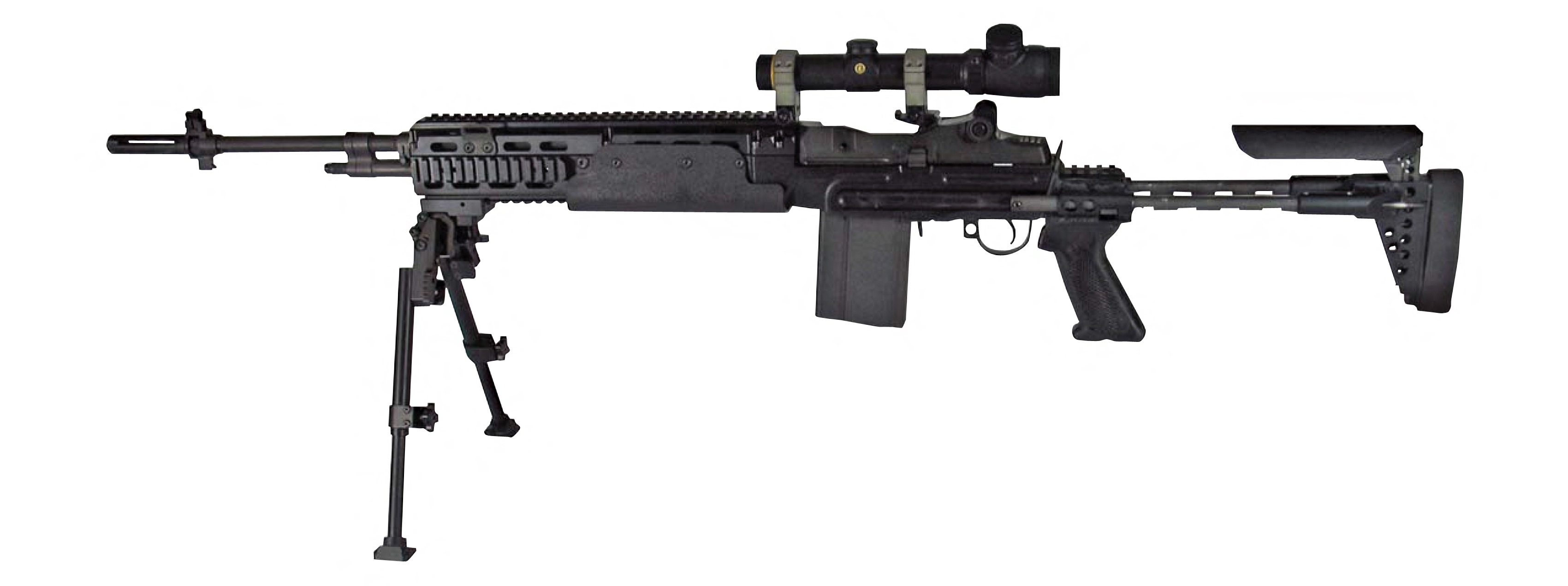 MK14, Mod 0 Enhanced Battle Rifle Primary function: Anti-personnel and light materiel targets. Length: Buttstock closed 34.9 in., Buttstock opened 40.9 in. Weight: 13.2 lbs. with 20-round magazine. Caliber: 7.62 mm NATO. Maximum effective range: Area target: 914 meters point target: 549 meters. Rate of fire (auto): 750 rounds per minute (approx.)